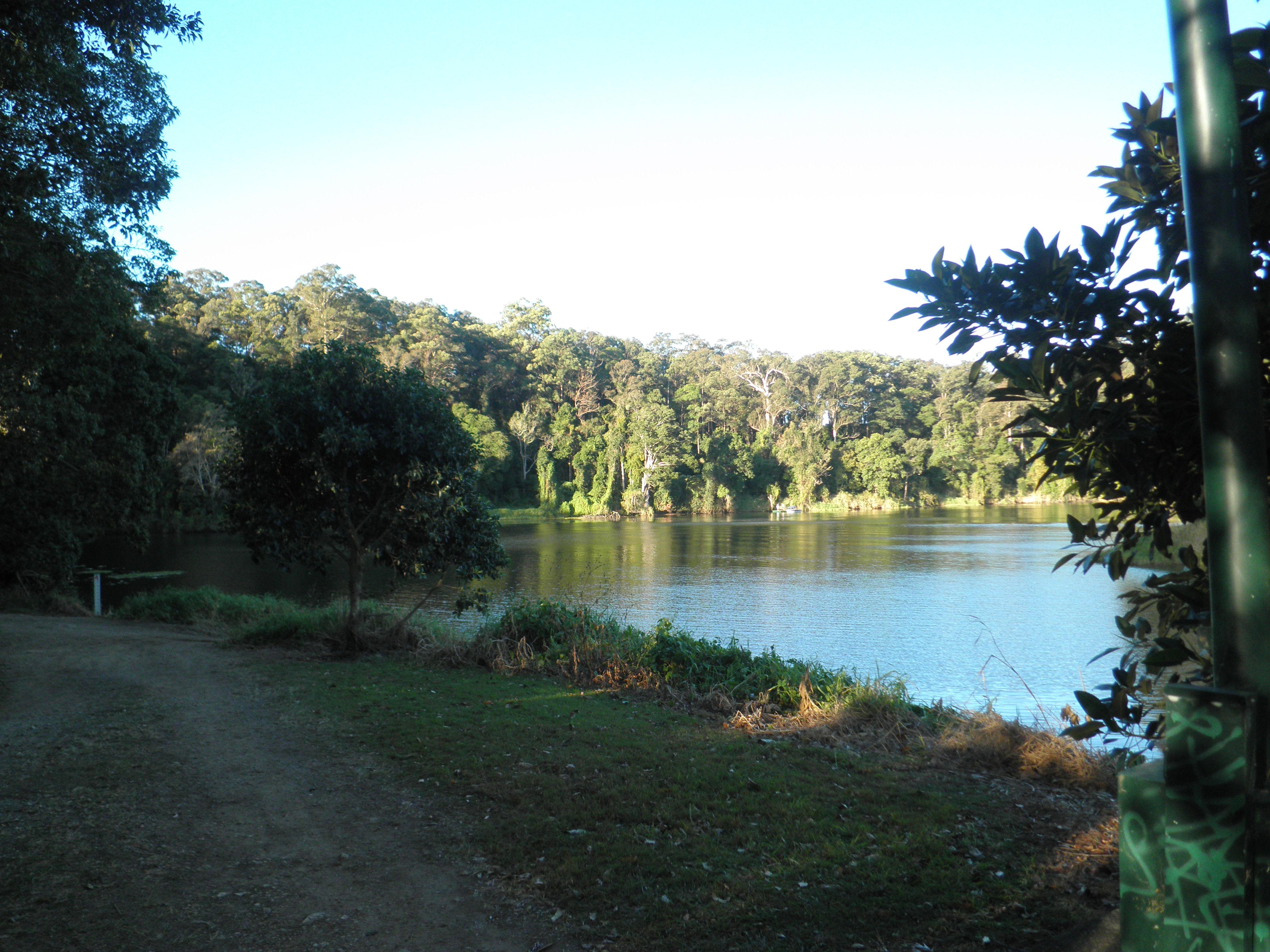 Old Tamborine Rd Causeway